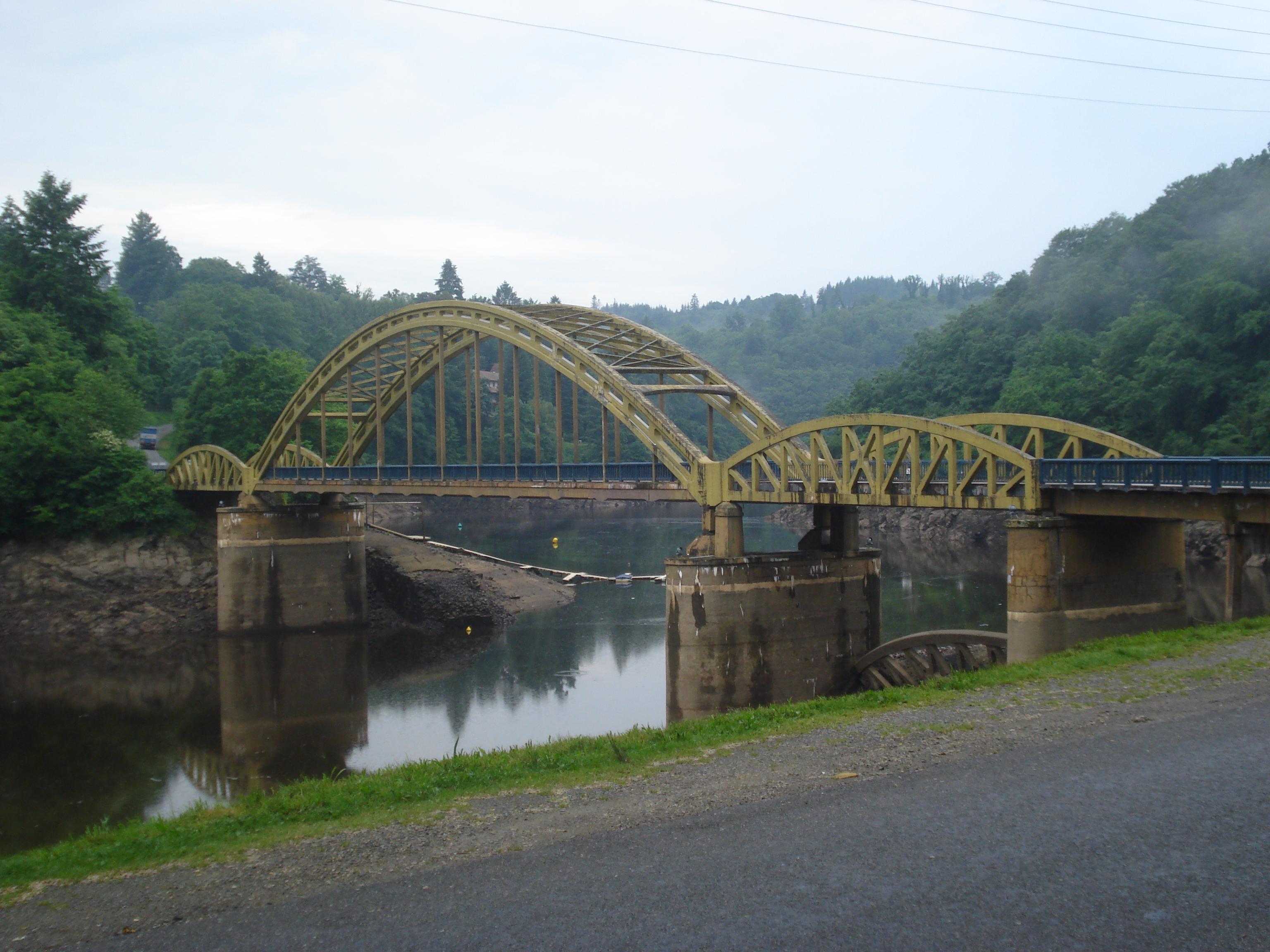 Pont_du_Dognon above the Taurion (Haute-Vienne, Fr) linking the municipalties of Saint-Laurent-les-Églises and Le Châtenet-en-Dognon near the hameau du Dognon